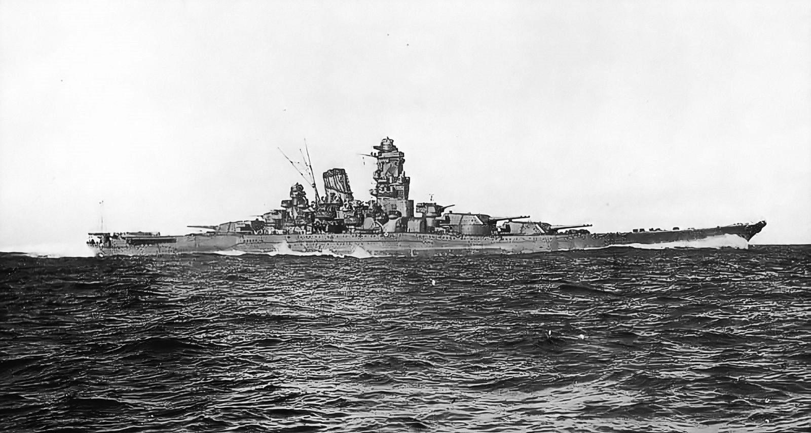 Battleship Yamato during sea trials October 30, 1941